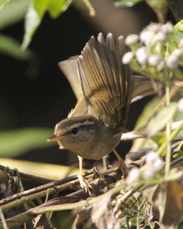 Radde's Warbler Phylloscopus schwarzi นกกระจิ๊ดปากหนา Khao Yai, Thailand 18th. January 2009 690V1630